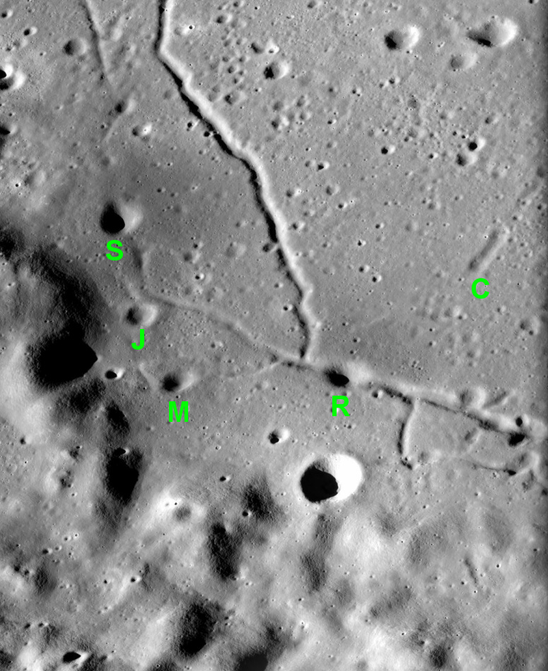 Oblique view of five small named craters within Alphonsus, on the moon. C = Chang-Ngo, R = Ravi, M = Monira, J = Jose, S = Soraya. Facing south with sun illuminating from left. Sun elevation 19 deg., spacecraft altitude 116 km.